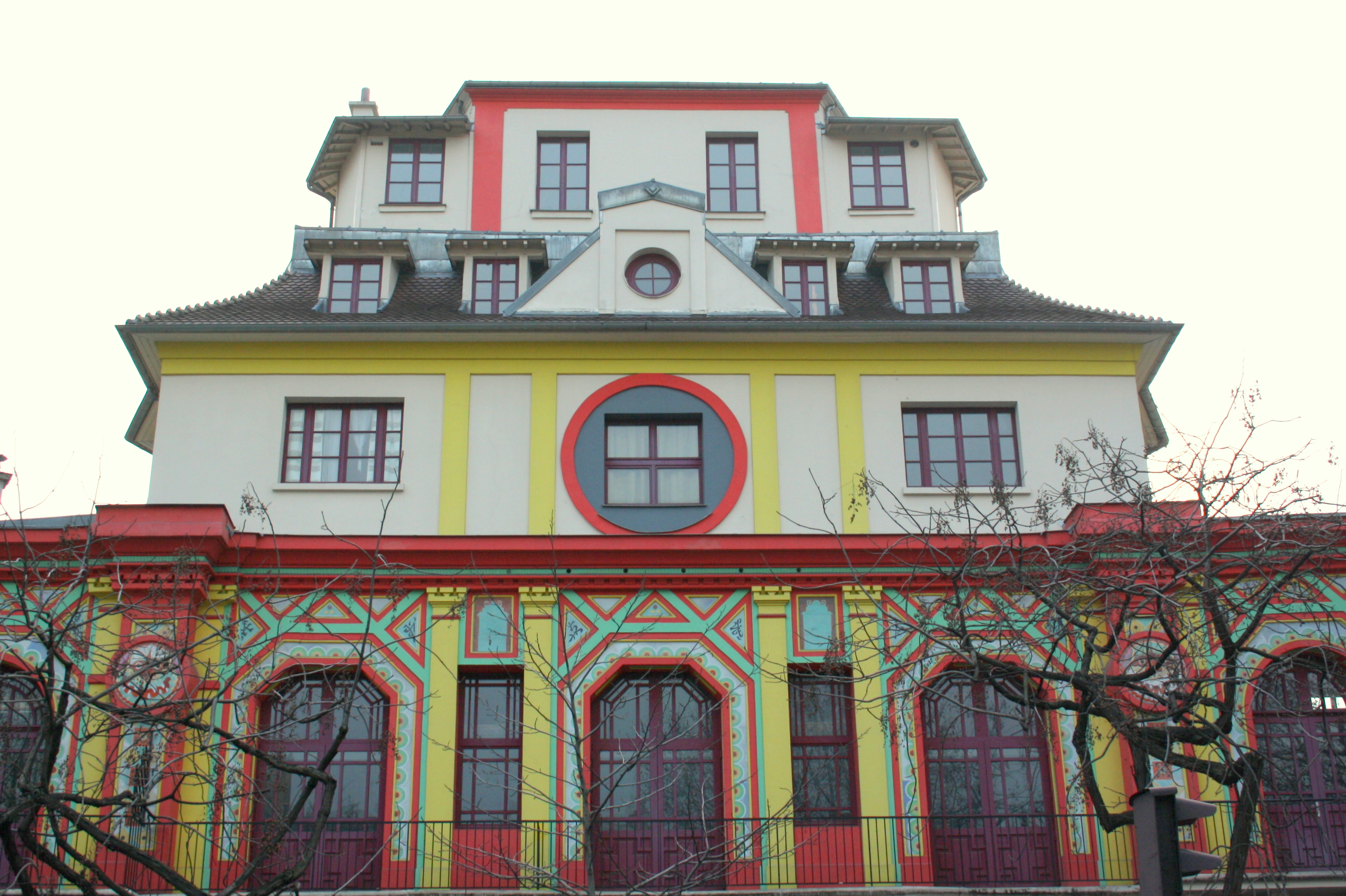 Bataclan theater, Paris.